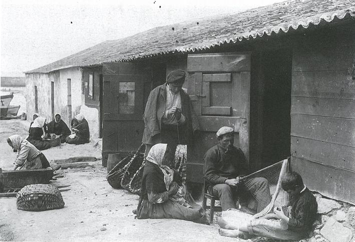 Fishermen houses and making nets for sardine fishing